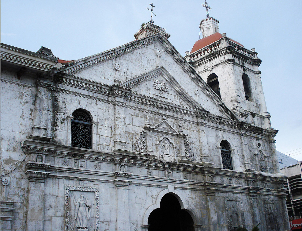 Basilica Minore del Santo Niño is a 16th century church in Cebu City in the Philippines.